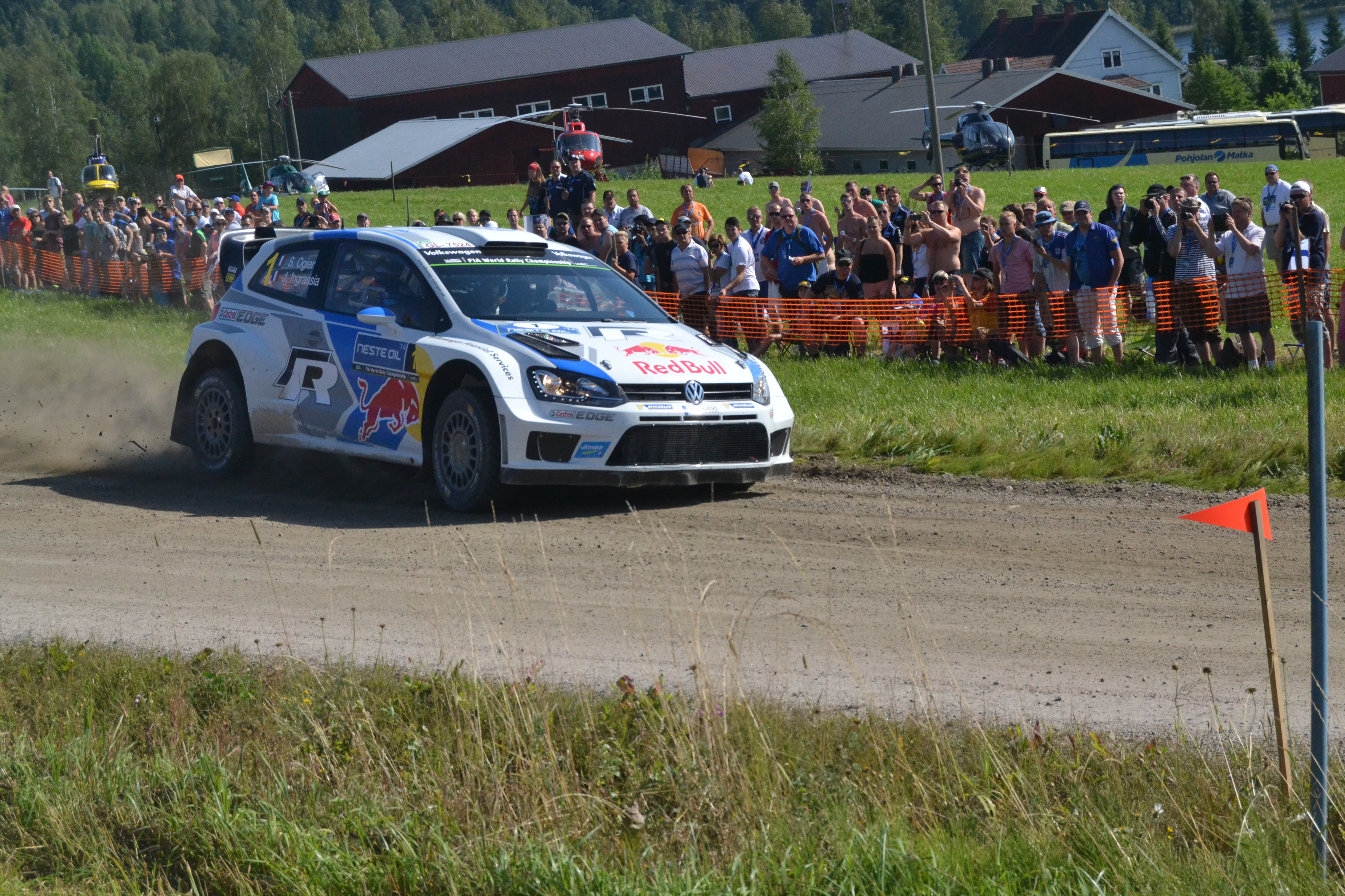 Sébastien Ogier at 1st Surkee stage at Rally Finland 2014